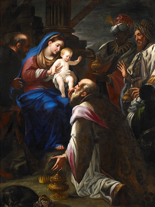 Adoration of the Magi, oil on canvas, uncertain attribution, 17th century, Lombardy. This painting is hanged in the cathedrale Saint-John-Saint-Stephen of Besançon, France.